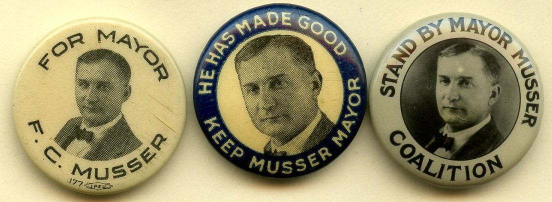 Campaign buttons for Frank Custer Musser